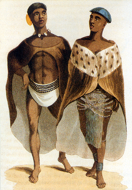 A Tlhaping captain an his wife, as observed by Rev. John Campbell, before the disintegration of the Tswana lifestyle, due to the Difaqane.